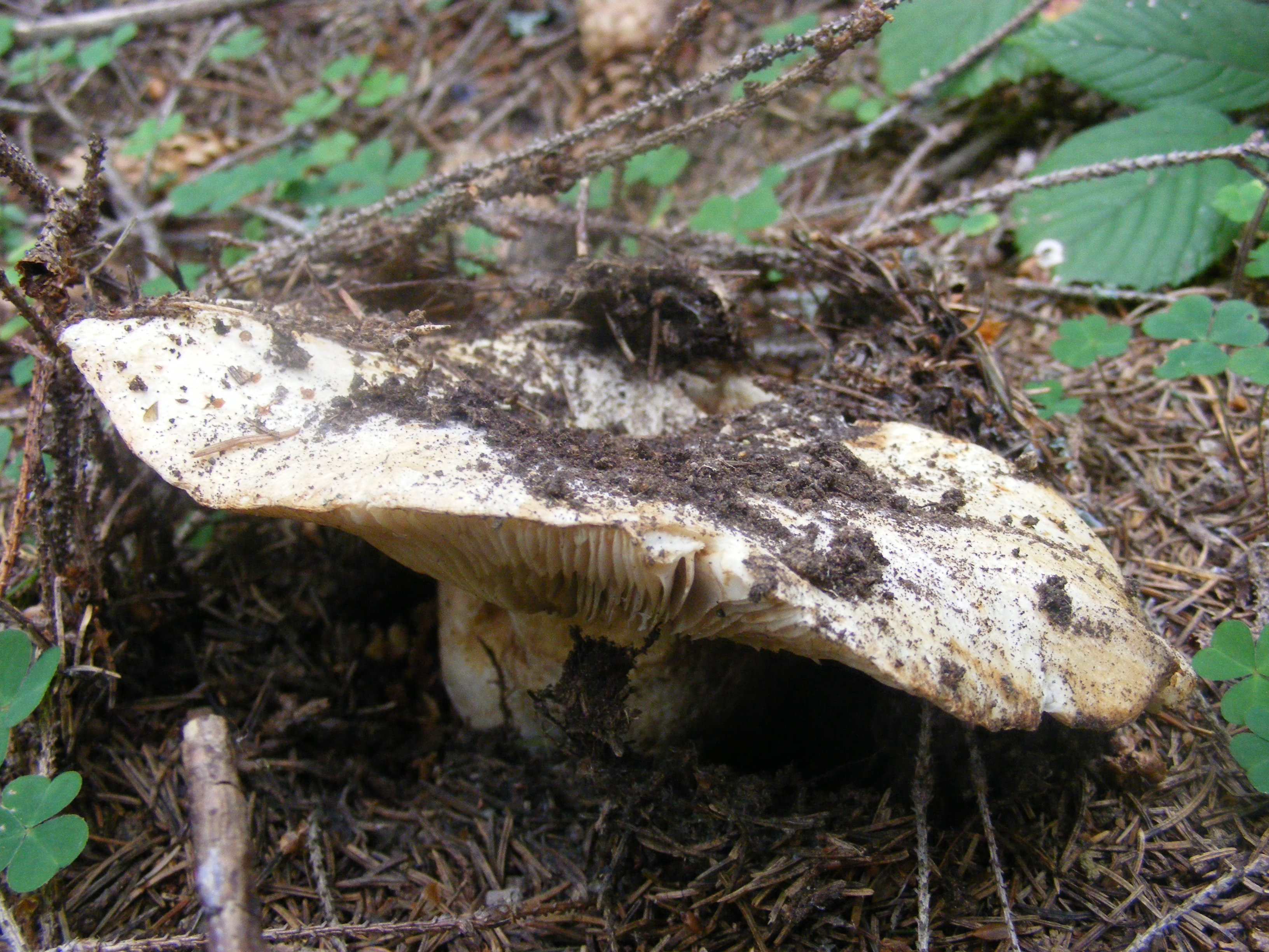 Russula delica